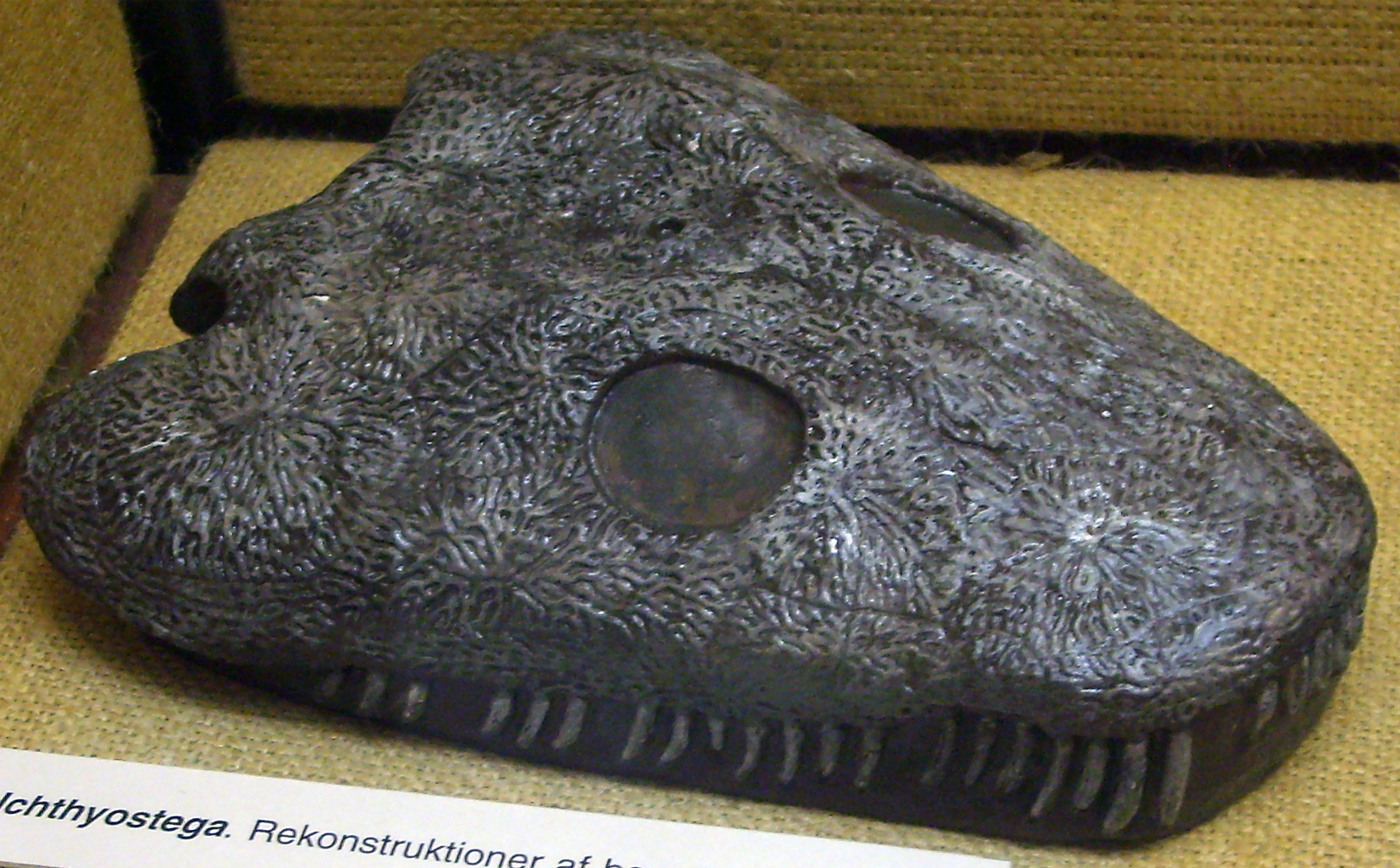 Ichthyostega skull reconstruction at the Geological Museum, Copenhagen.